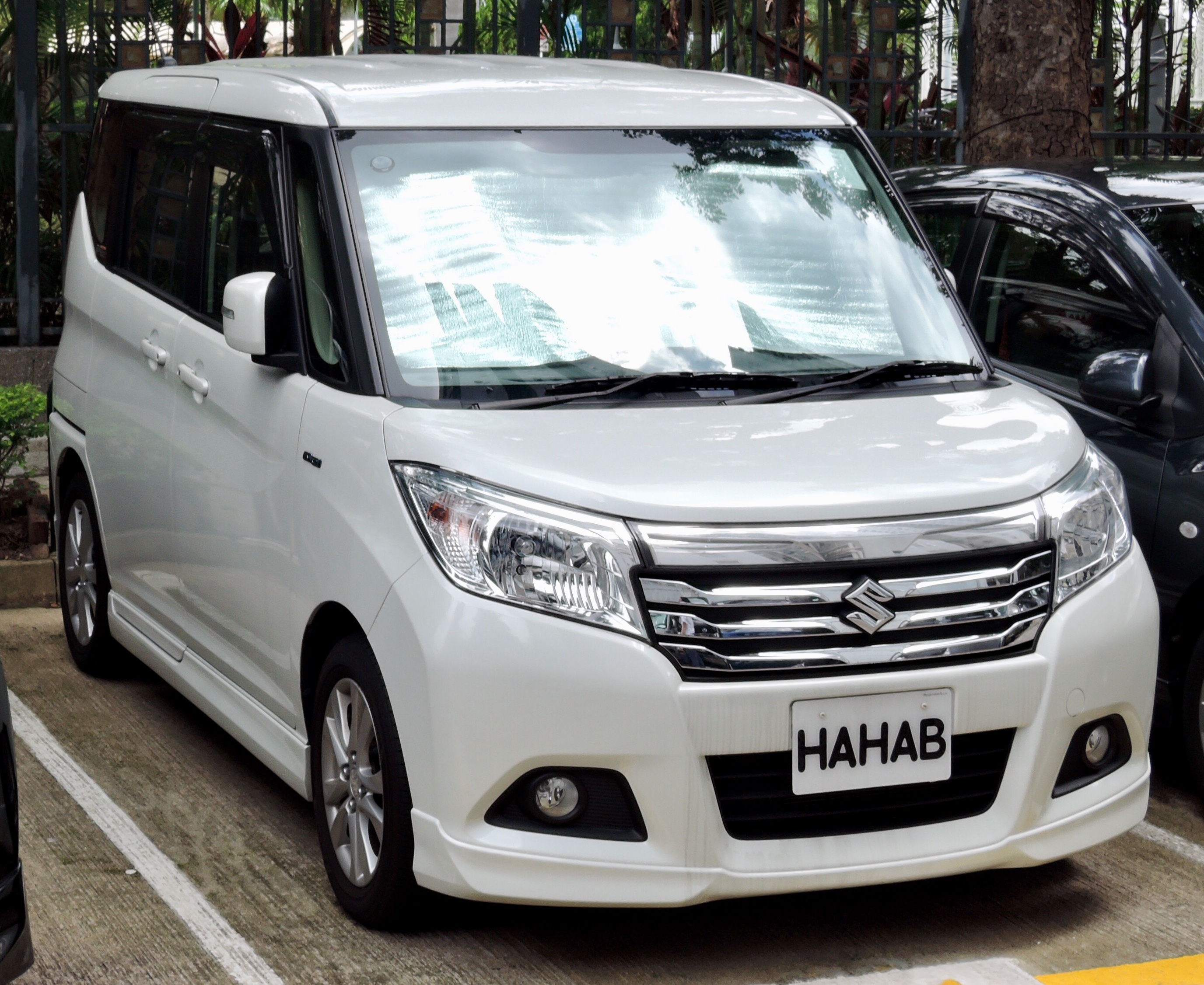 Taken in Hang Hau, Sai Kung District, Hong Kong.